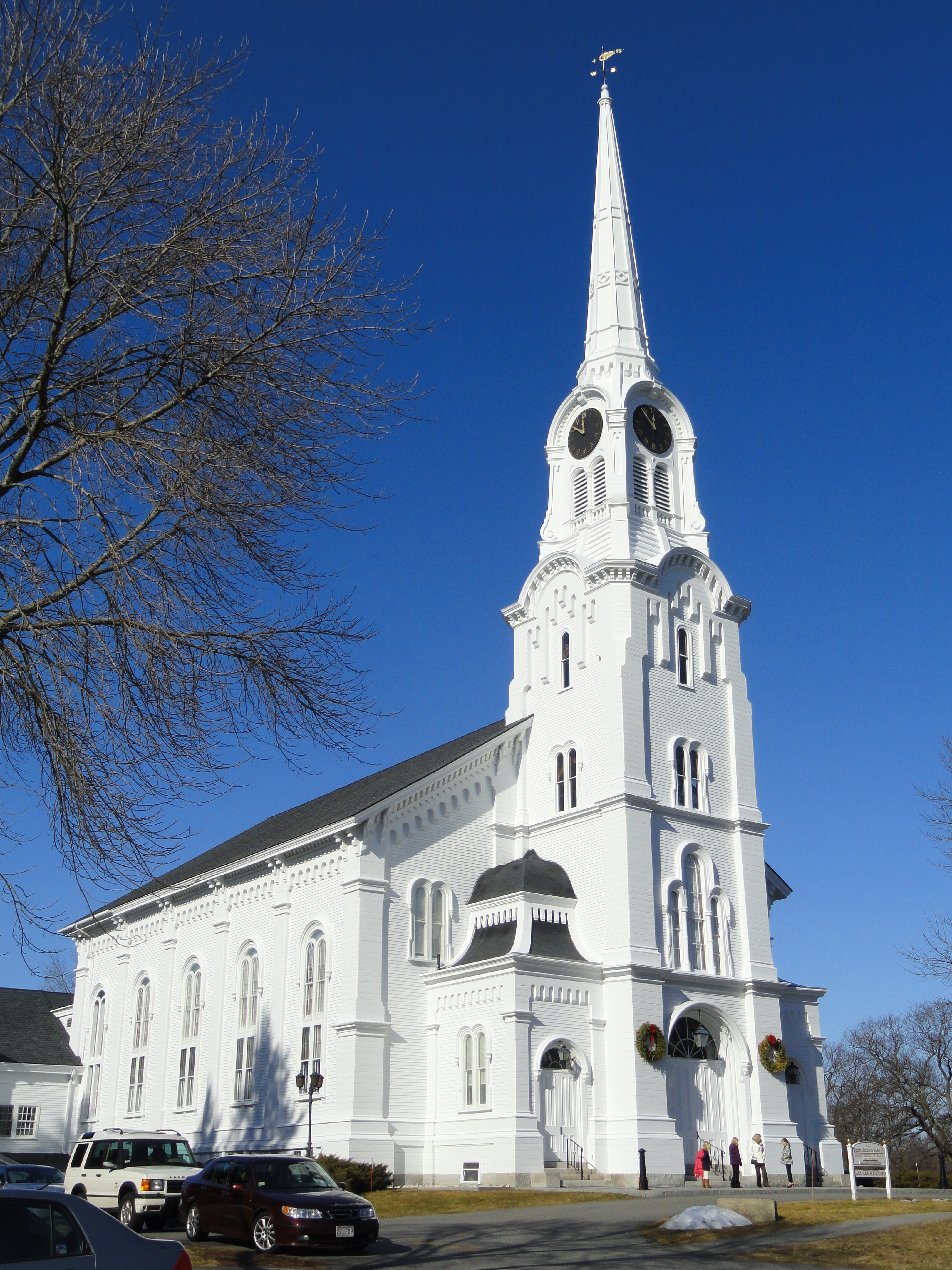 South Church in Andover, Andover, Massachusetts, USA. (United Church of Christ.)